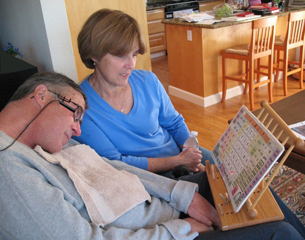 A man with ALS uses a head mounted laser pointer to communicate with his wife, by pointing to letters and words on a communication board. She repeats out loud what he is pointing to.